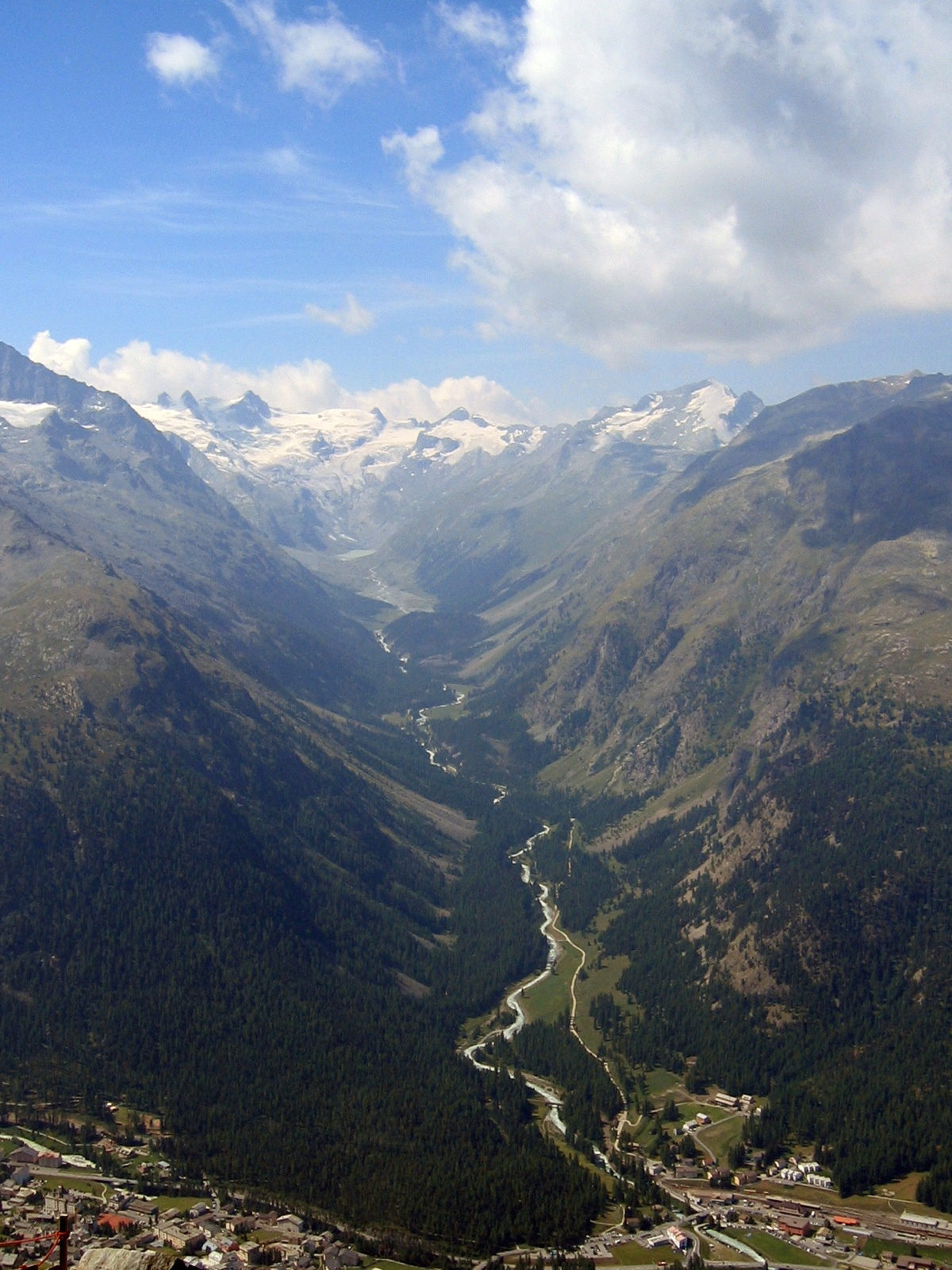 valley leading to Pontresina, Graubunden, Switzerland